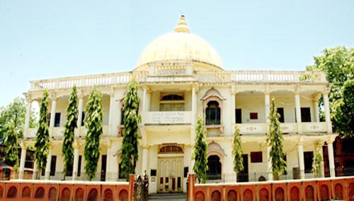 Rajwade Mandal, Dhule